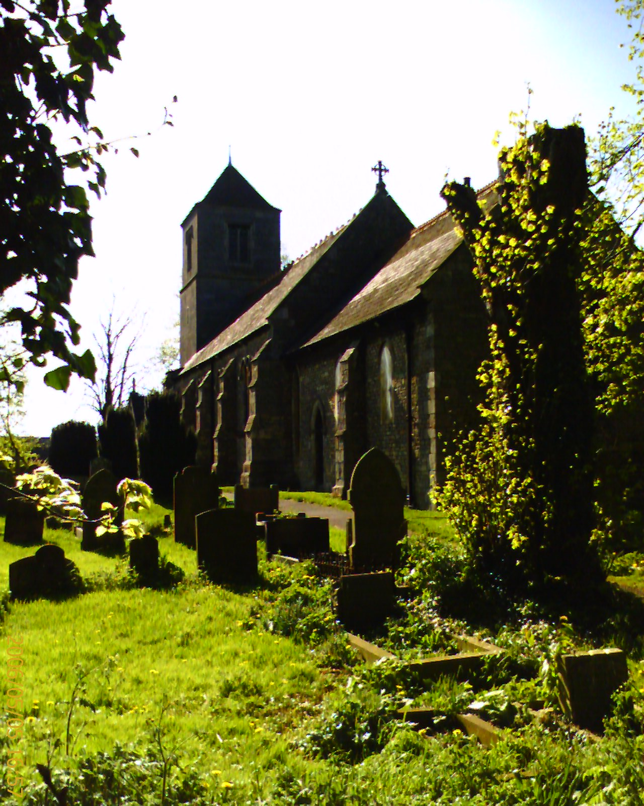 St Hybald's Church, Hibaldstow. Photo by Asterion talk to me